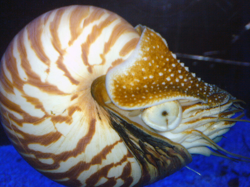 The Chambered Nautilus (Nautilus pompilius) is the best-known species of nautilus. The shell, when cut away as in the photograph in the gallery below, reveals a lining of lustrous nacre and displays a nearly perfect equiangular spiral. The shell exhibits countershading, being light on the bottom and dark on top. This is to help avoid predators because when seen from above, it blends in with the darkness of the sea, and when seen from below, it blends in with the light coming from above. The animal has more primitive eyes than some other cephalopods; the eye has no lens and thus is comparable to a pinhole camera. The animal has about 90 tentacles with no suckers, which is also different from other cephalopods. This nocturnal animal has a pair of rhinophores, which detect chemicals, and uses olfaction and chemotaxis in order to find its food. Taken in the Blue Reef Aquarium Southsea, Portsmouth. Comments welcome.